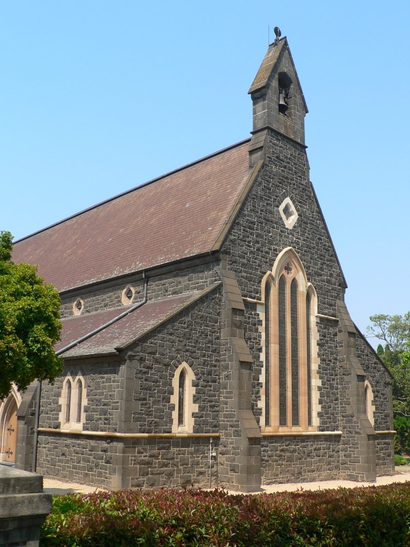 St Mary's Catholic Church. St Kilda East. Melbourne, Victoria, Australia. Built 1858. Architect: William Wardell.